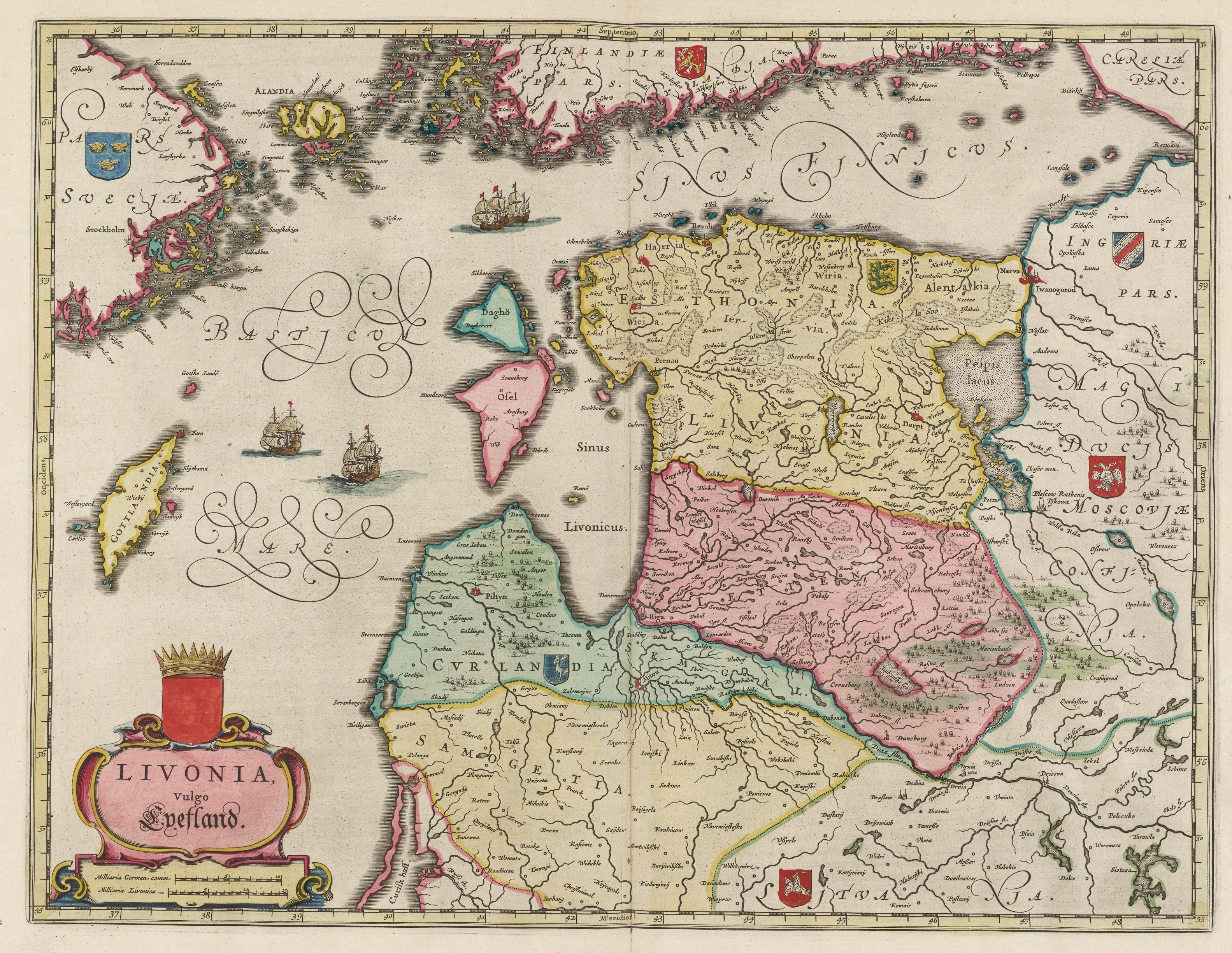 Livonia Vulgo Lyefland